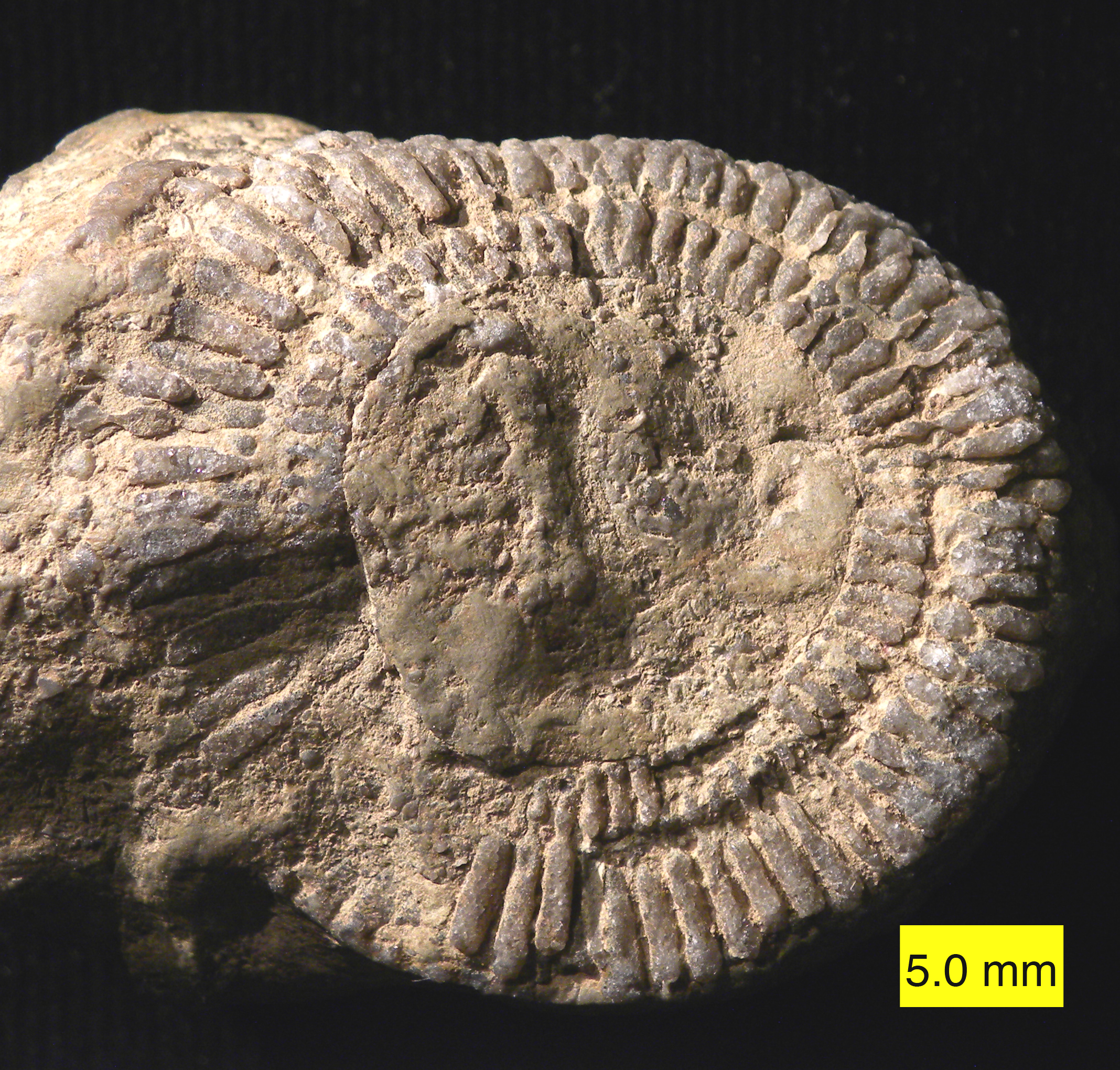 Receptaculitid underside showing merom structure.